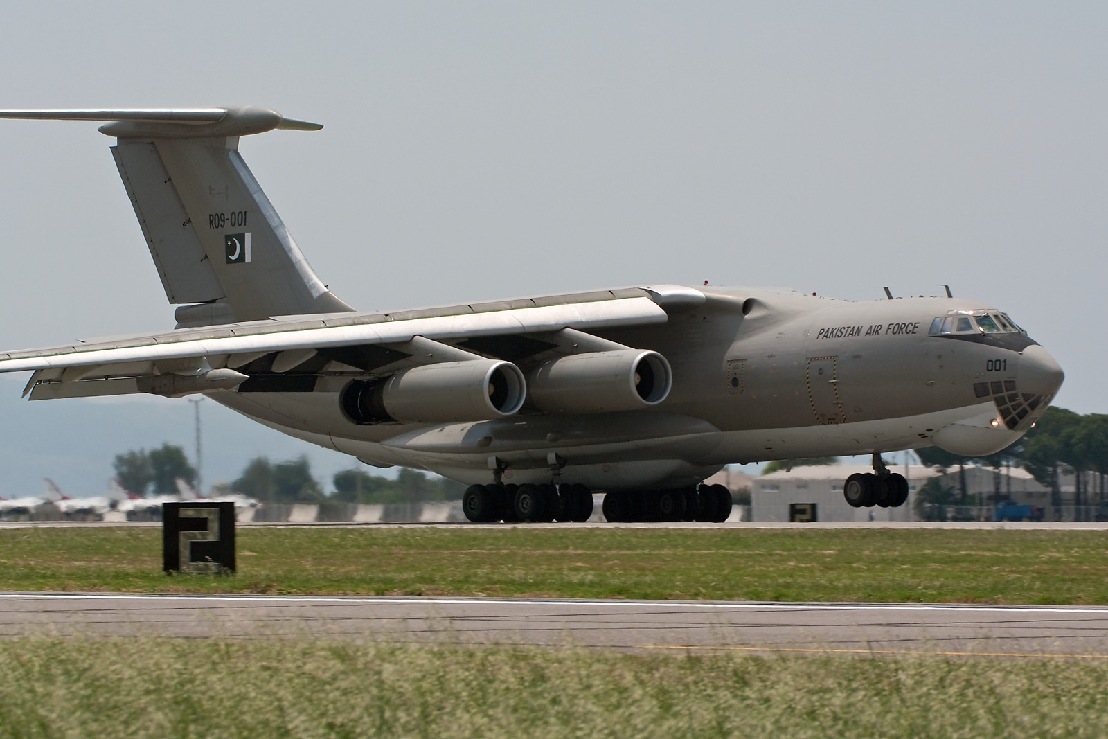 Ilyushin IL-78 (R09-001) Pakistan Air Force